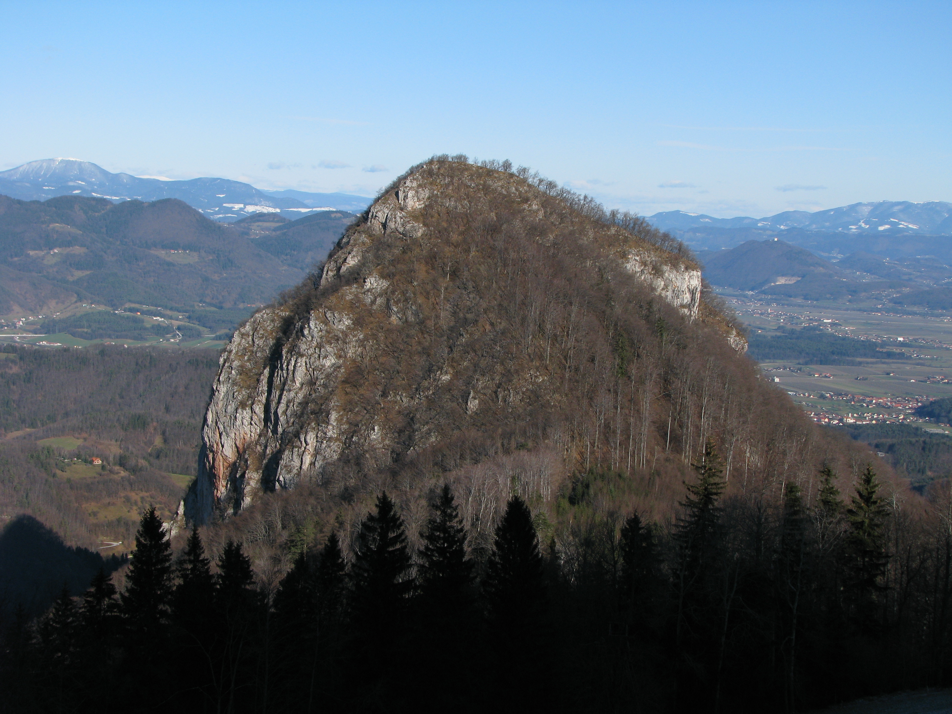 Mountain of Krvavica (909 m) in Lower Savinja Valley